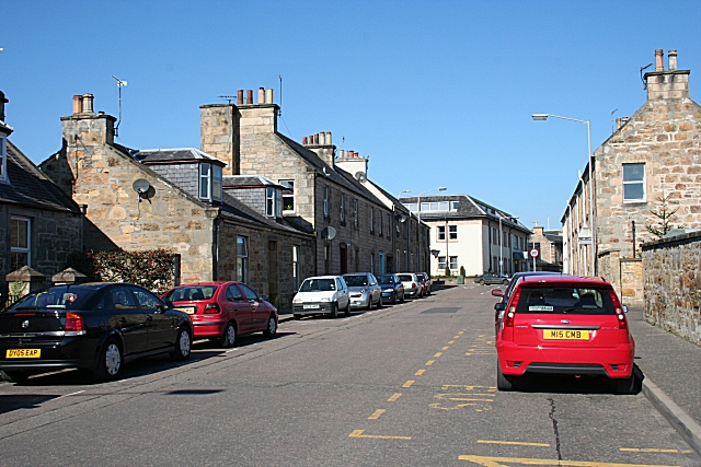 Abbey Street A mainly residential street close to the town centre. The white building at the far end is part of Moray Council Headquarters.